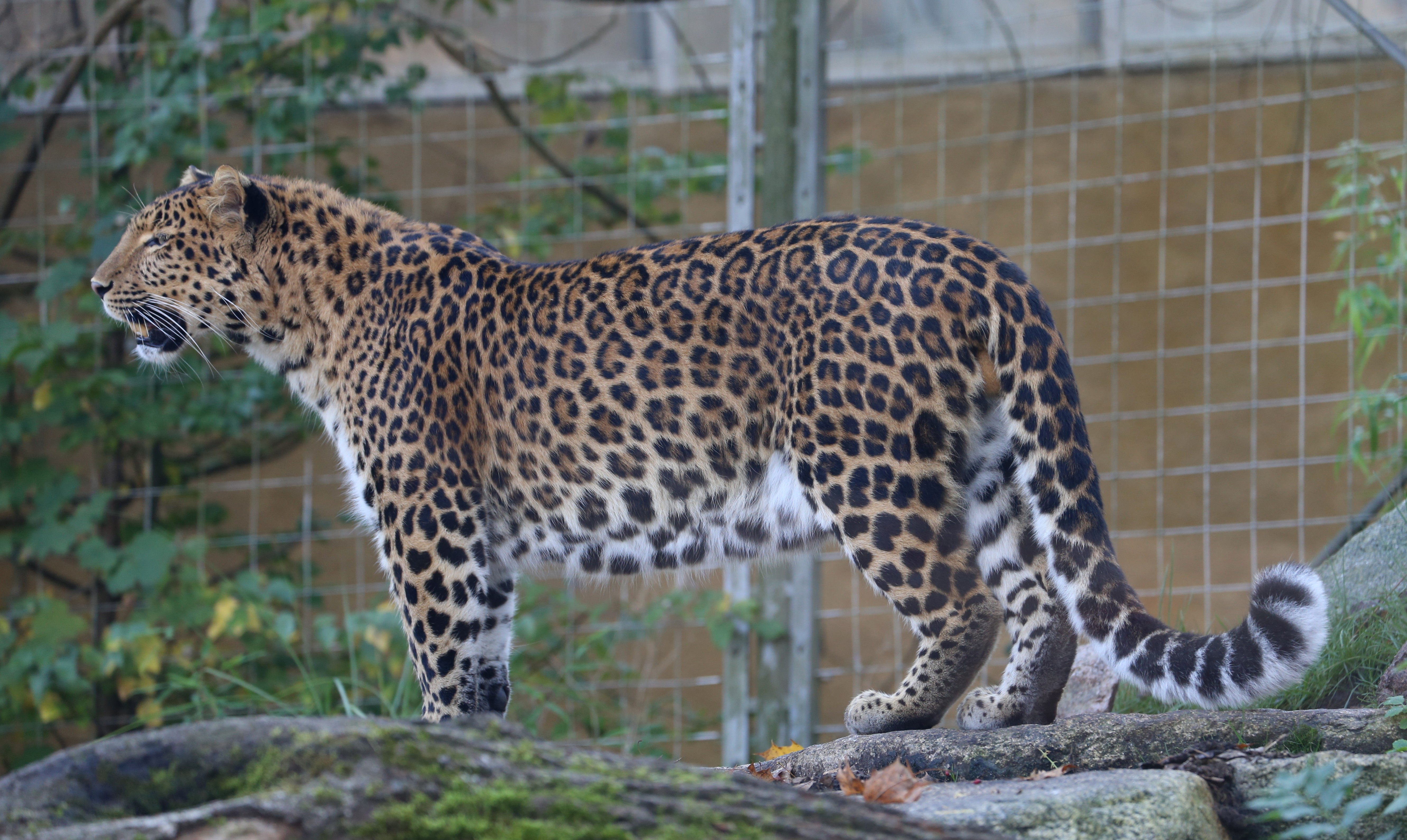 Chinesischer Leopard (Panthera pardus japonensis), Tierpark Hellabrunn